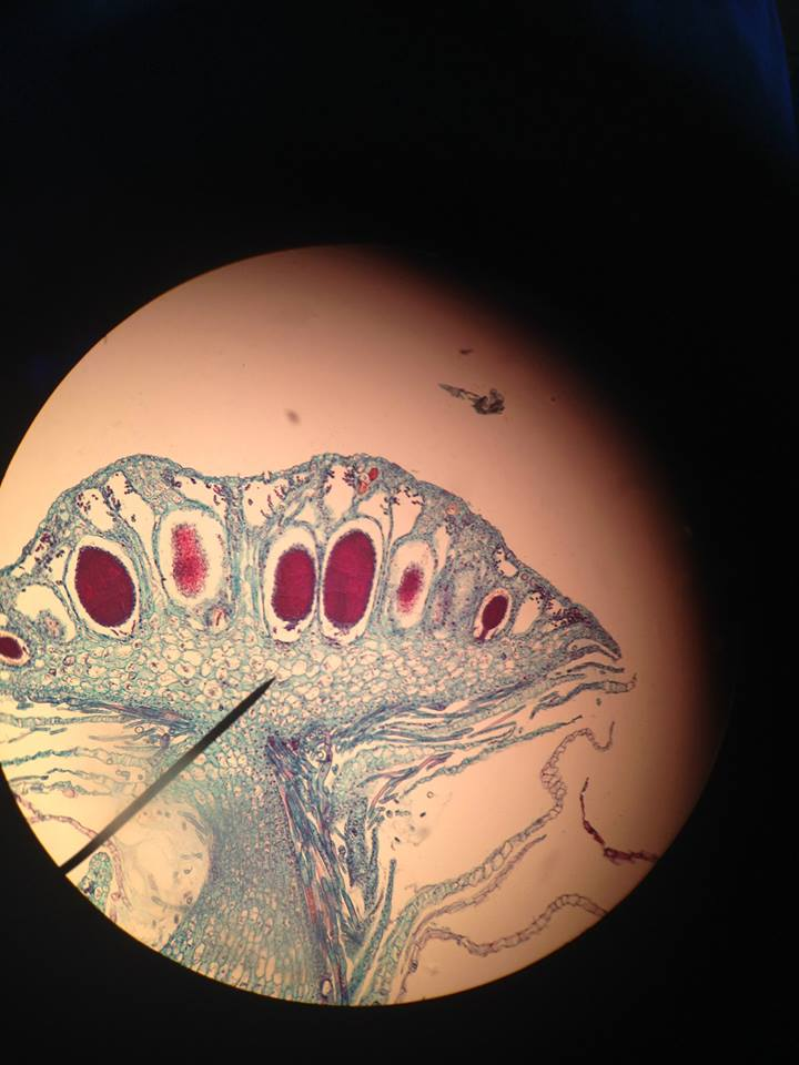 Marchantia Antheridia